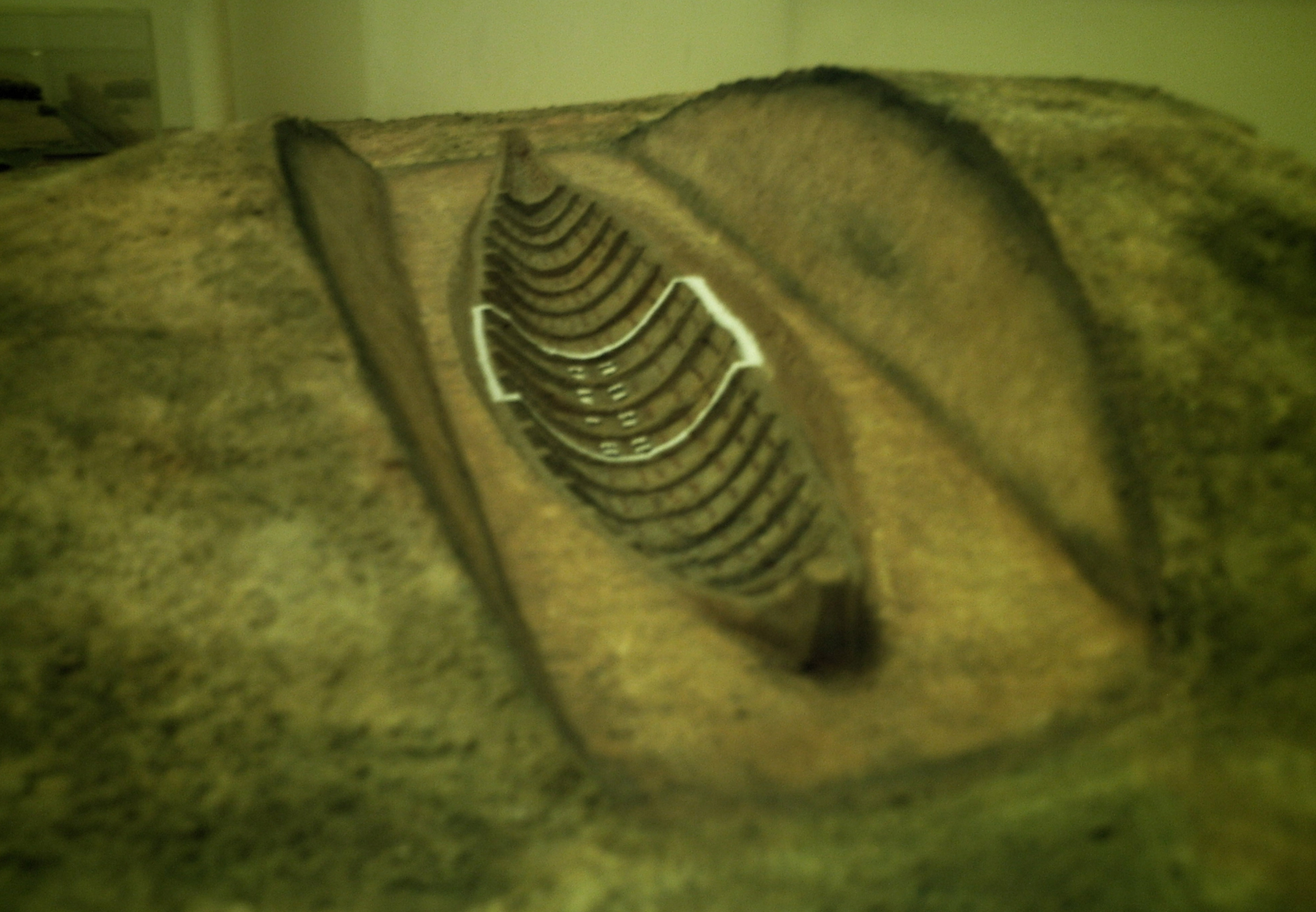 Model of the Sutton Hoo ship-burial 1, England. The placement of the burial chamber is marked white.